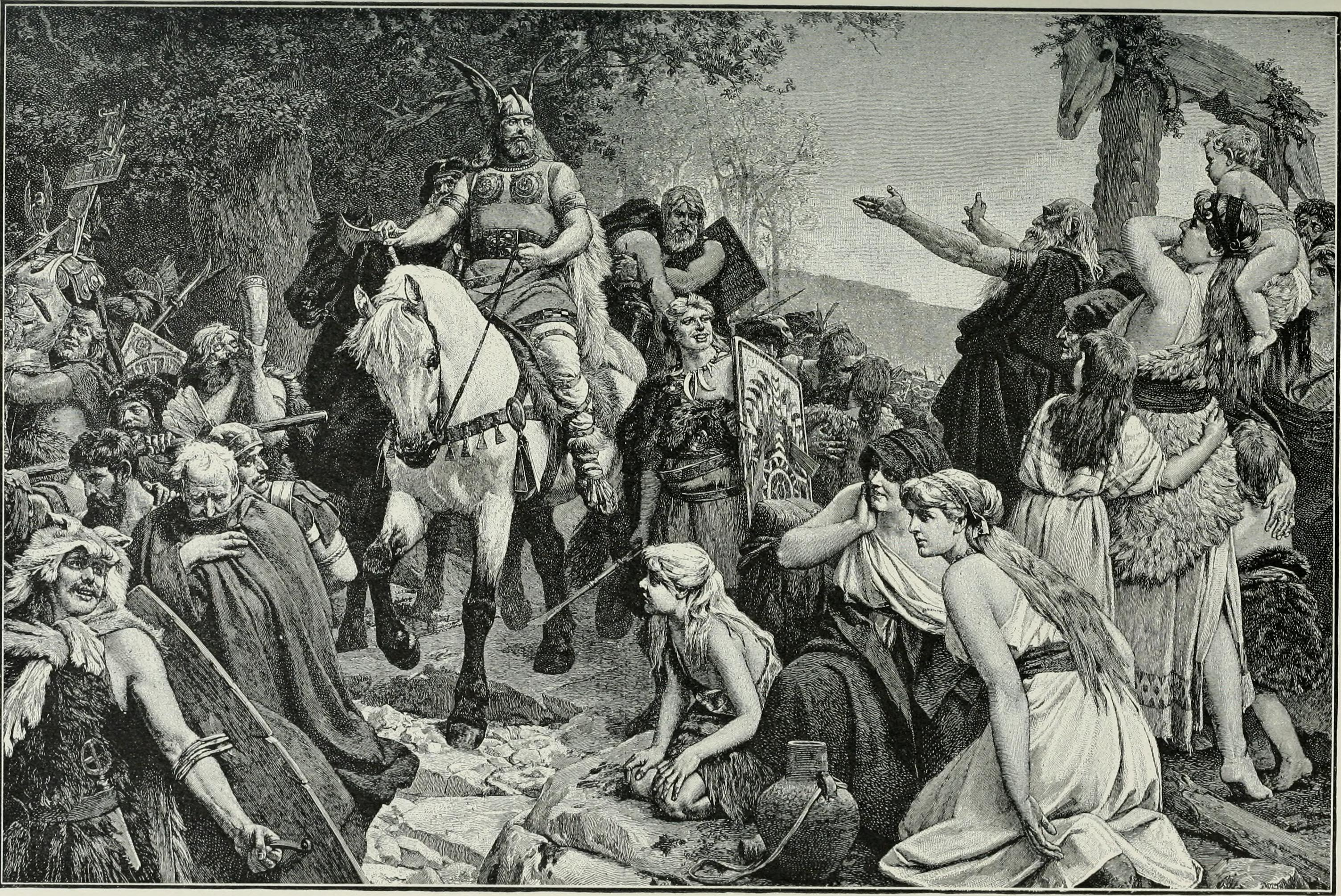 Title: The story of the greatest nations, from the dawn of history to the twentieth century : a comprehensive history, founded upon the leading authorities, including a complete chronology of the world, and a pronouncing vocabulary of each nation Year: 1900 (1900s) Authors: Ellis, Edward Sylvester, 1840-1916 Horne, Charles F. (Charles Francis), 1870-1942 Subjects: World history Publisher: New York : F.R. Niglutsch Text Appearing Before Image: ' Text Appearing After Image: Germany—Hermann Defeats Varus 509 their respect, and even their reluctant admiration, but Varus, by his cruelty andinjustice, roused their fiercest hatred. Trodden upon and bitterly humiliated, they needed only the guidance of aleader, who would show them how to make their vengeance felt. Such a leaderappeared in Hermann, the Arminius of the Roman writers. He was a chief ofthe Cherusci tribe, but had been trained in warfare under the Romans. Hehad visited many parts of the empire and risen to be commander of a legion inthe service. Returning to his German home, already a man of note, thoughonly twenty-five years old, he made a romantic match with Thusnelda, daughterof another Cheruscan chief. There seems to have been some enmity betweenthe two families, for Hermann had to steal the maid from her home, and herfather, Segestes, became his bitter and lifelong foe. How it was Hermann first conceived the idea of heading his countrymen intheir threatened revolt, we do not know; but he for